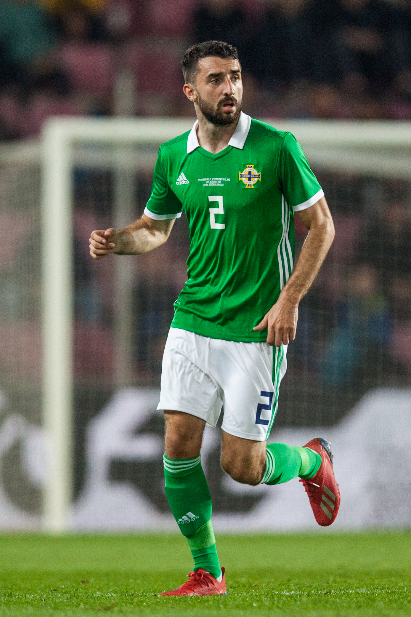 Conor McLaughlin in an international friendly match between Czech Republic and Northern Ireland (2:3), Stadion Letná (Prague) 2019-10-14 The making of this work was supported by Wikimedia Austria. For other files made with the support of Wikimedia Austria, please see the category Supported by Wikimedia Österreich. Personality rights warningAlthough this work is freely licensed or in the public domain, the person(s) shown may have rights that legally restrict certain re-uses unless those depicted consent to such uses. In these cases, a model release or other evidence of consent could protect you from infringement claims.